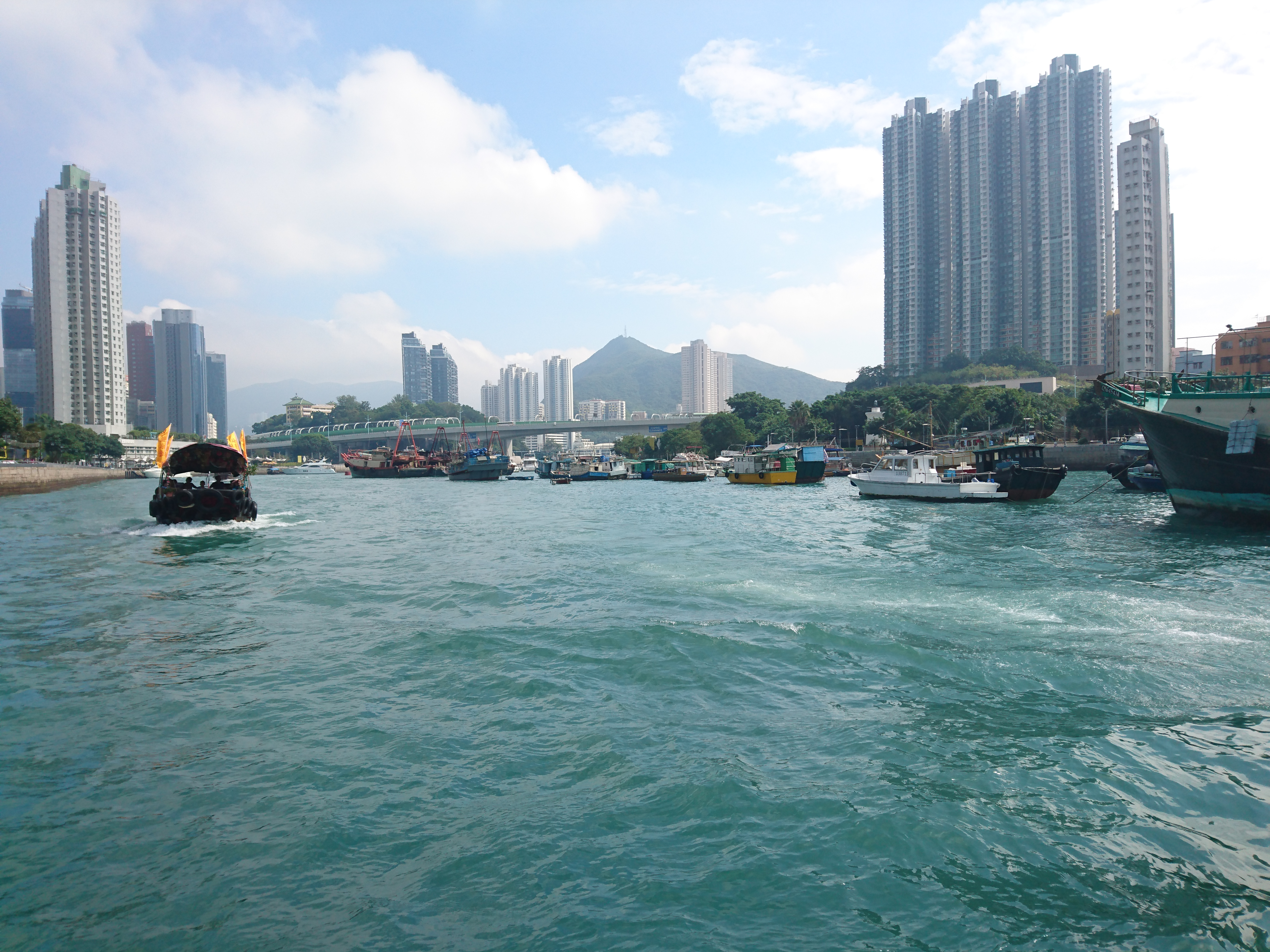 Aberdeen Harbour towards Ap Lei Chau Bridge